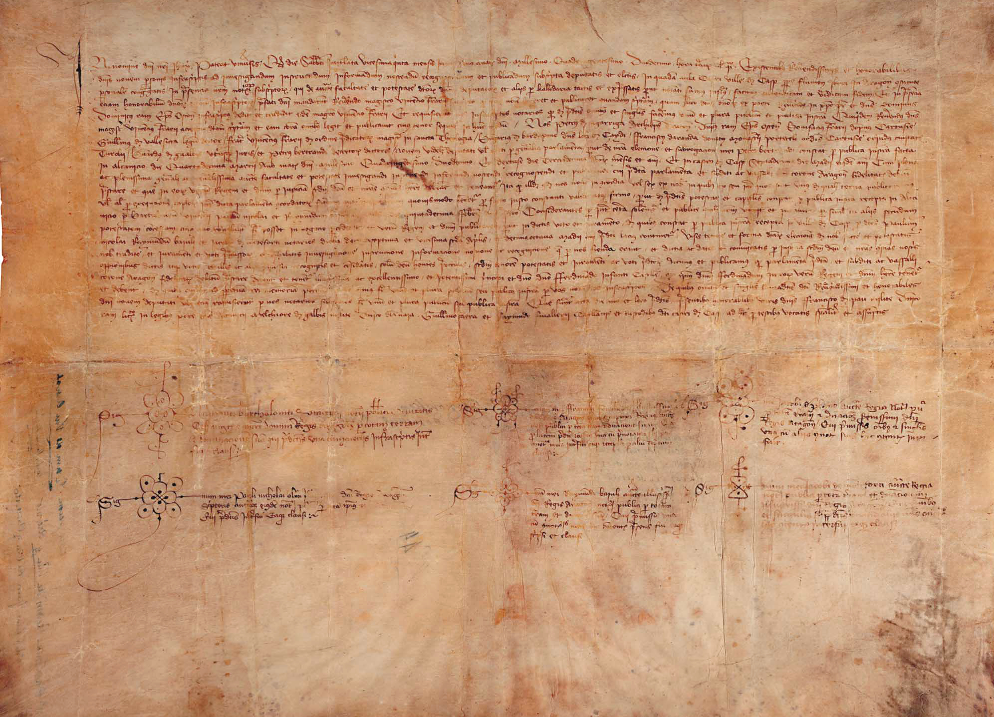 Original act unanimous election of Fernando de Antequera as king of Aragon by the delegates of Caspe. See Carlos Laliena Corbera and Cristina Monterde Albiac, En el sexto centenario de la Concordia de Alcañiz y del Compromiso de Caspe, coord. by José Ángel Sesma Muñoz, Zaragoza, Gobierno de Aragón, 2012. Paleographic description from p. 42.